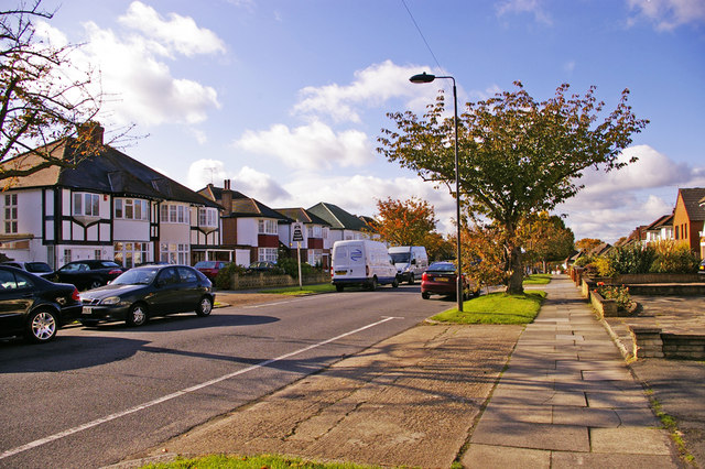 Heddon Court Avenue, Cockfosters Heddon Court Avenue as seen from outside the Medical Centre.